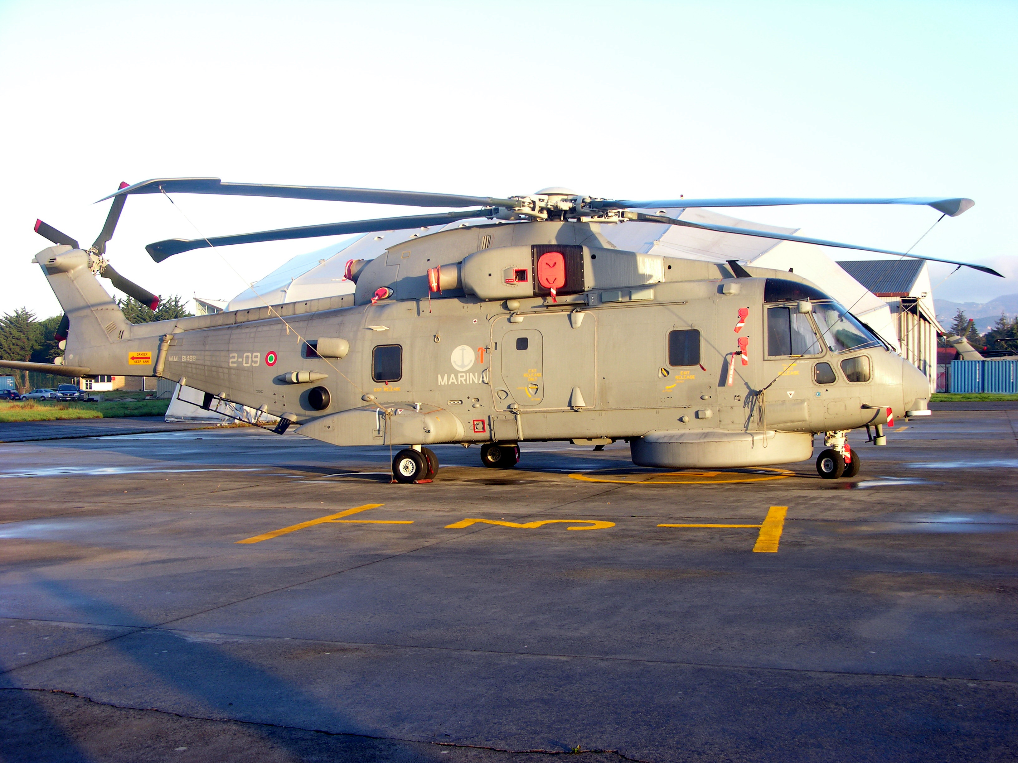 EH101-112ASuW/E of 1º Grupelicot taken at Luni-Sarzana, Italy. The anti-submarine version of the Merlin.